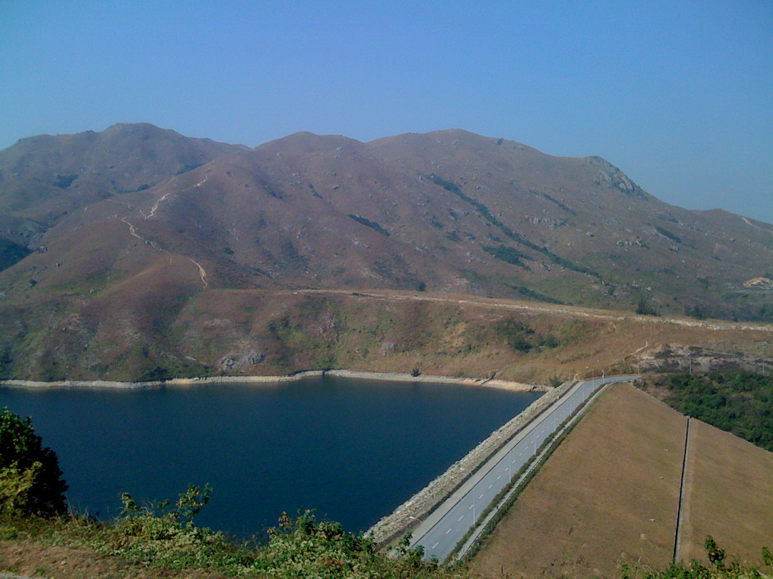 Discovery Bay Reservoir